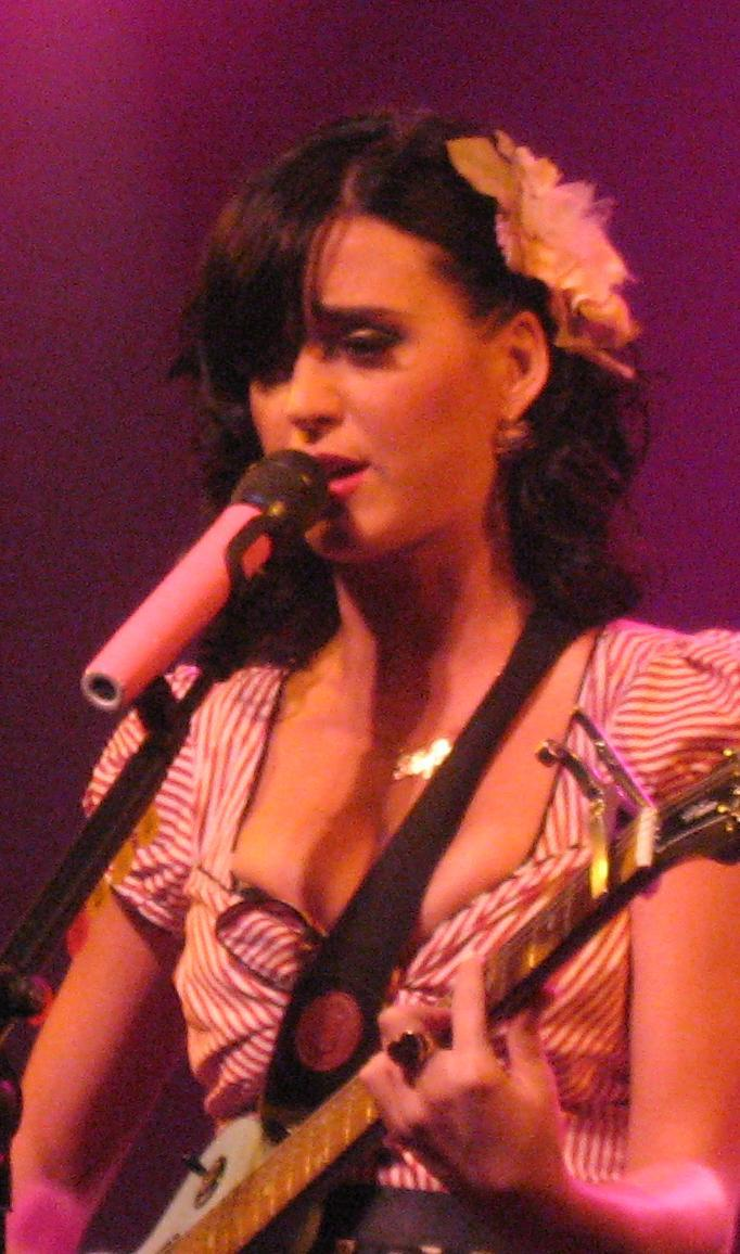 Katy Perry's show in Berlin (This file was edited).